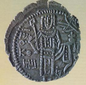 Coin depicting emperor of Trebizond, Michael.